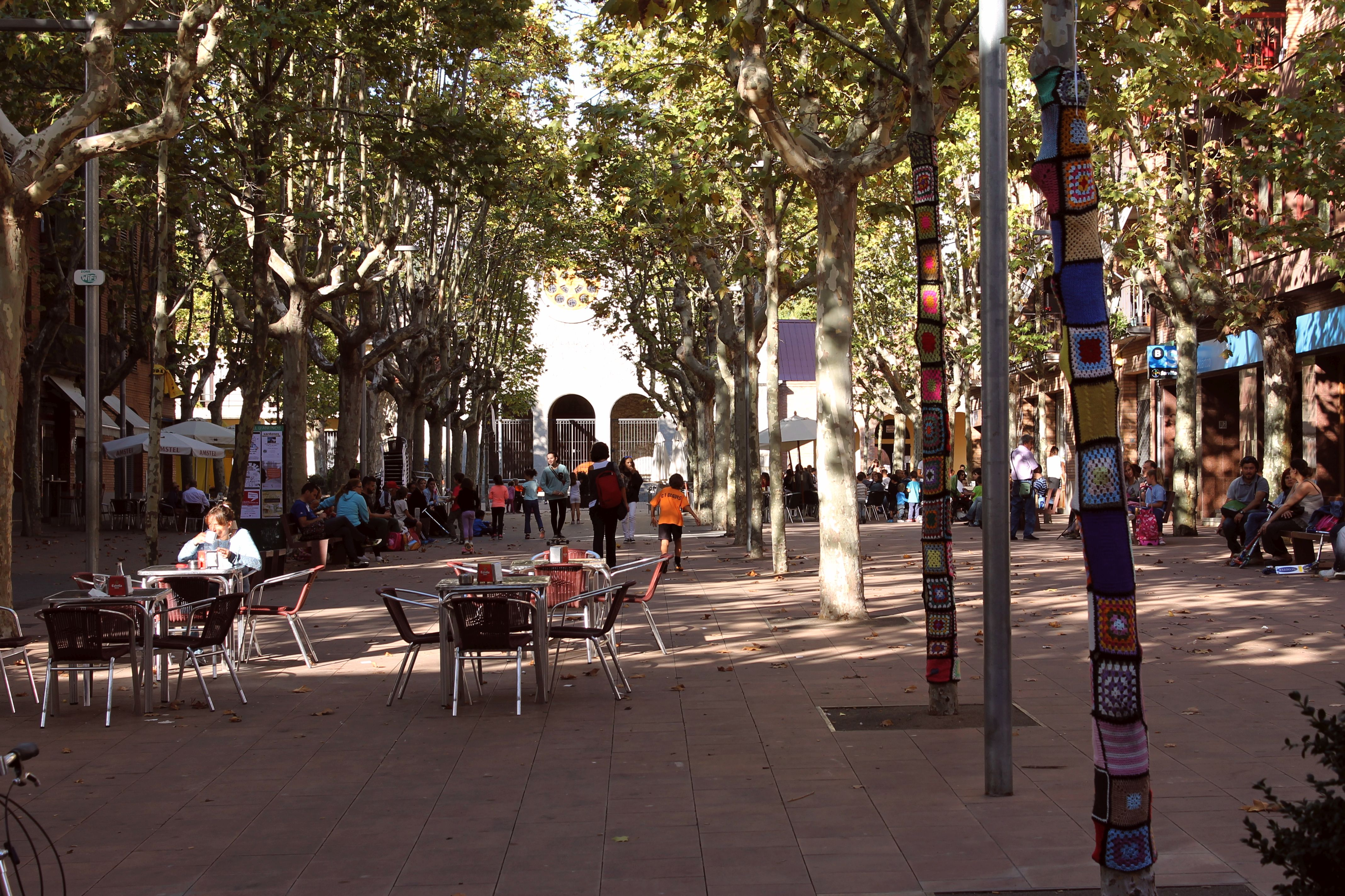 Begues, Info will follow